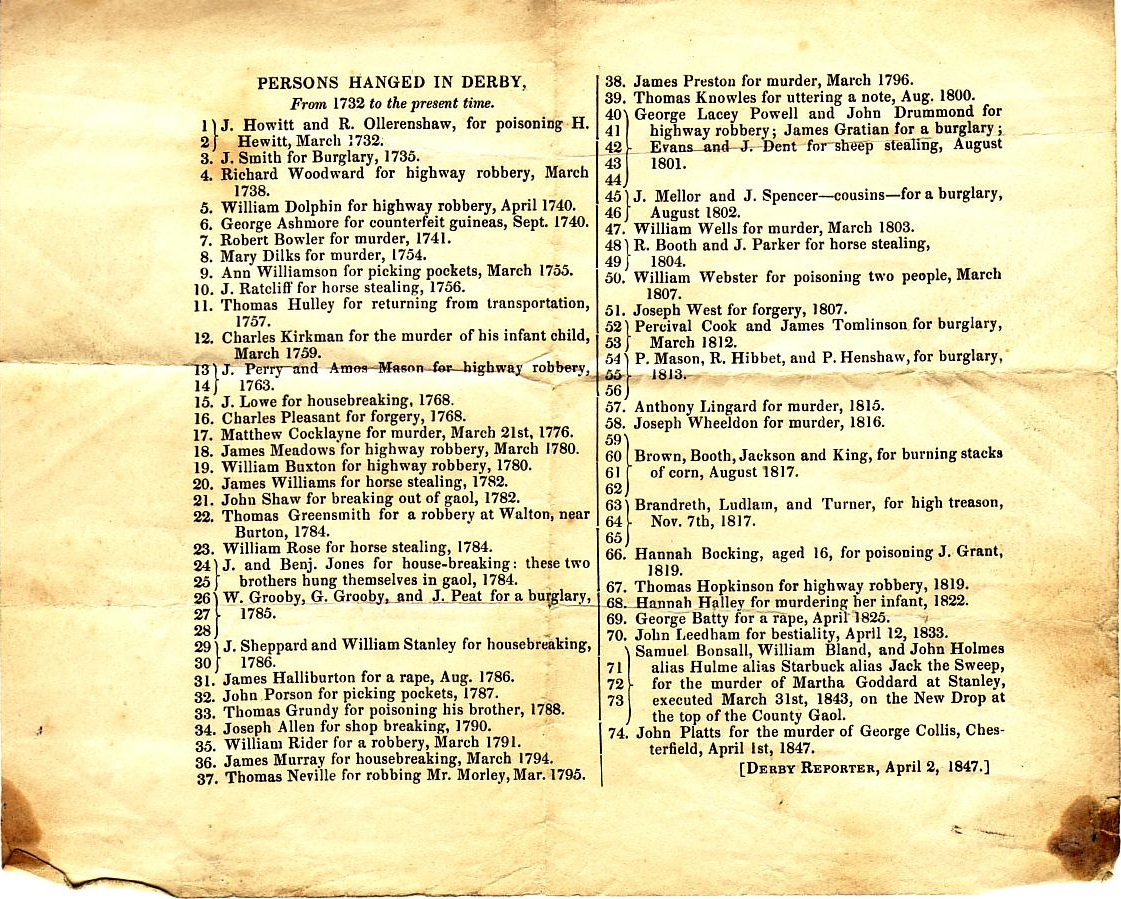 Derby Gaols Hangings, 1732 to 1847. This sheet was (apparently) made available by the Derby Reporter on April 2 1847 to satisfy the interest of Derby residents on the occasion of the hanging of John Platts the previous day. Scanned by N S Aspdin on May 27 2007 from an original document in his ownership being a document believed not now subject to any copyright ownership or restrictions